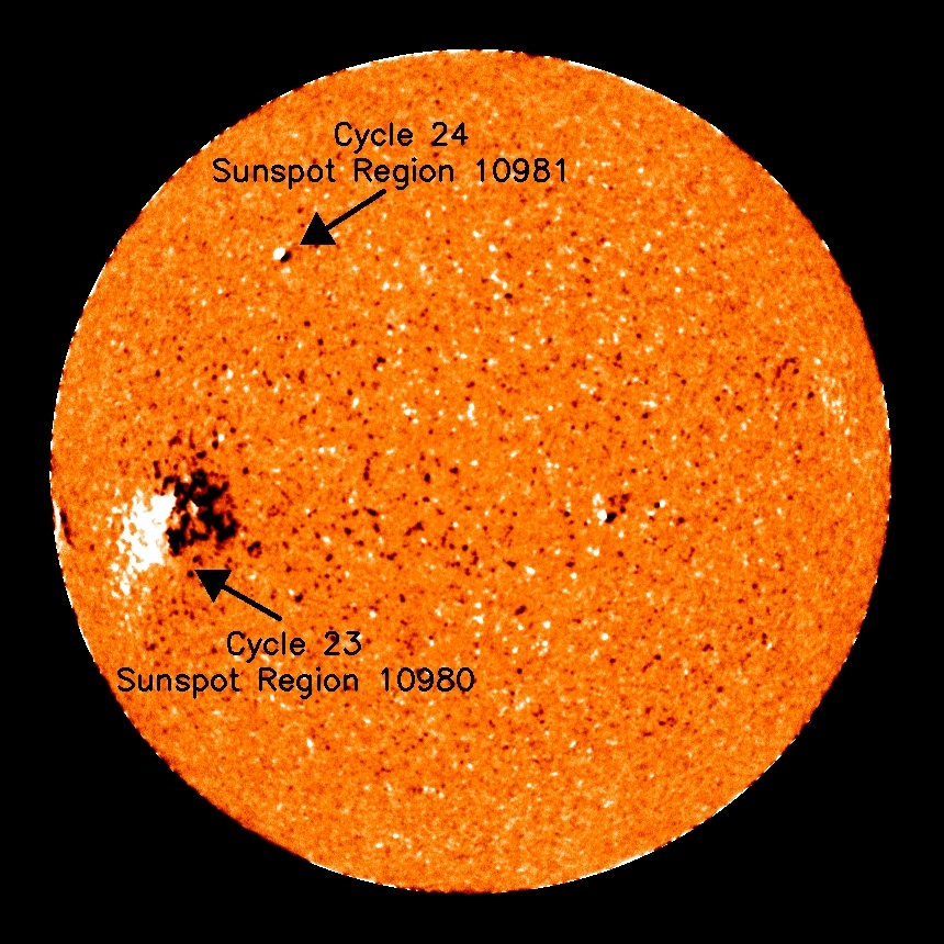 First official sunspot belonging to the new Solar Cycle 24.